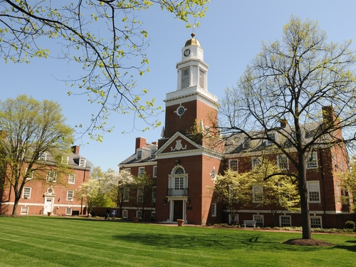 Williamson Hall is the heart historic of Westminster Choir College's campus in Princeton, named after Ohioan founder of the institution John Finley Williamson.